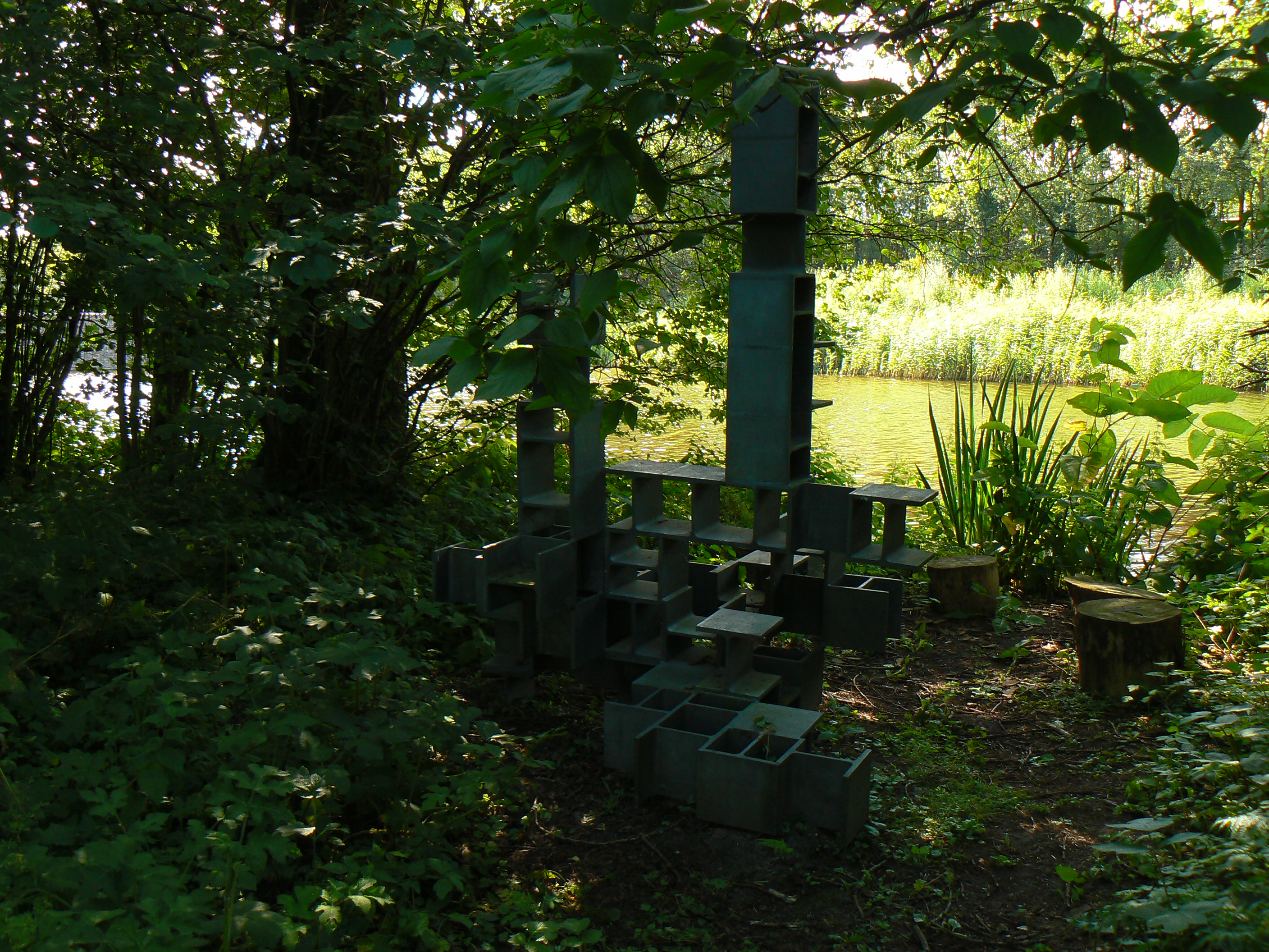 Sculpture Constructie in DIN 2.0 (1966) by André Volten, Siegerpark in Amsterdam/The Netherlands